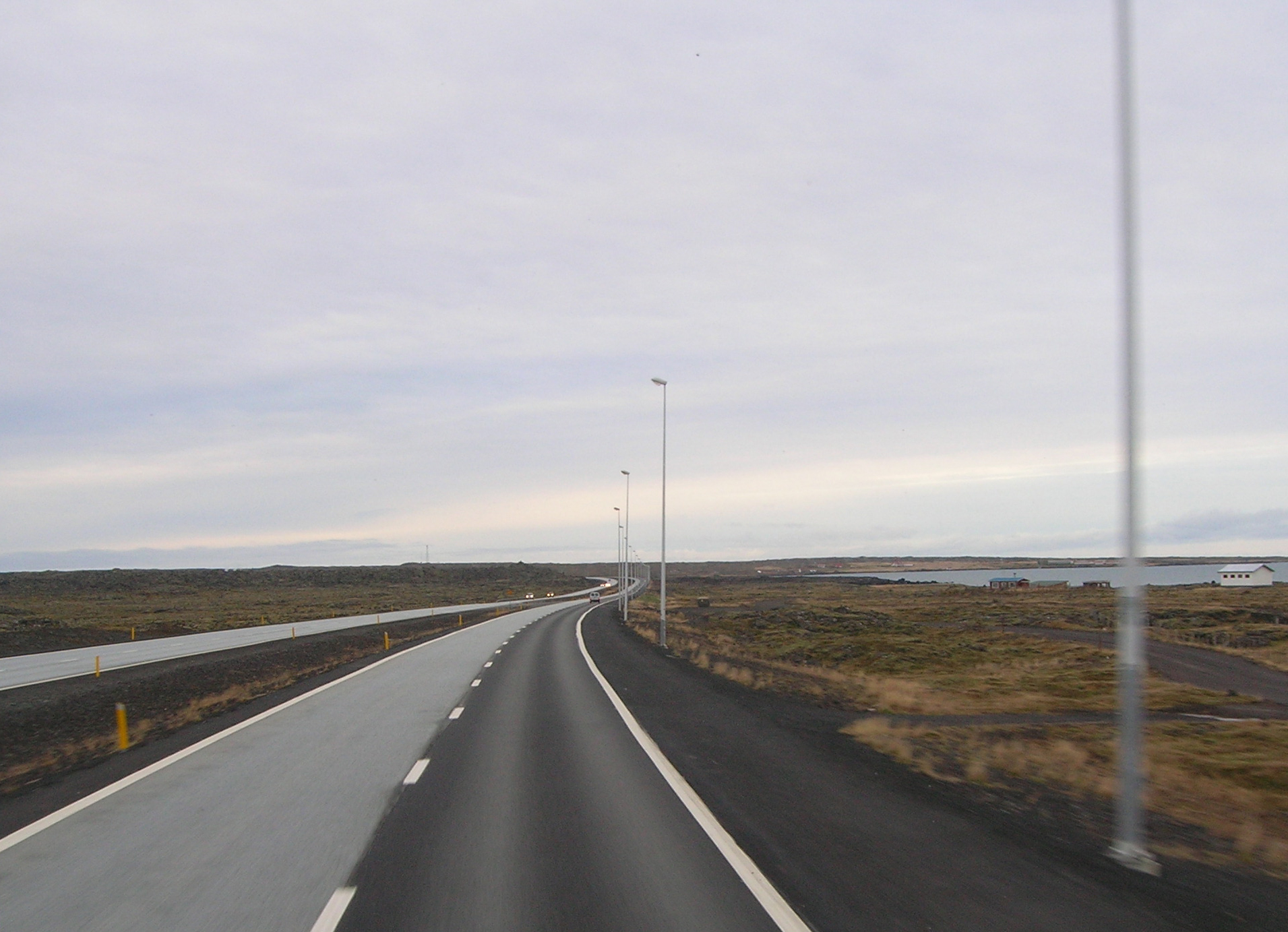 Dual carriageway on highway 41, between Reykjavík and Keflavík.